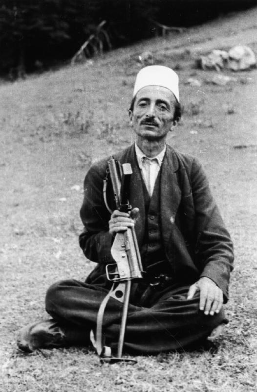 Service of Major David Smiley With Special Operations Executive (soe) in Albania, 1943 - 1944 Portrait of Dule Bey Allemani, a tribal chief from Albania, holding a sten gun at Lure during the second SOE mission to Albania, July 1944.